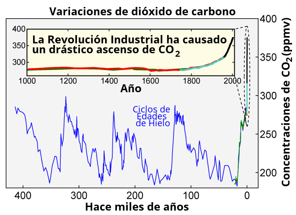 Translation into Spanish of a graphic already in CommonsCarbon dioxide variations 400 k years